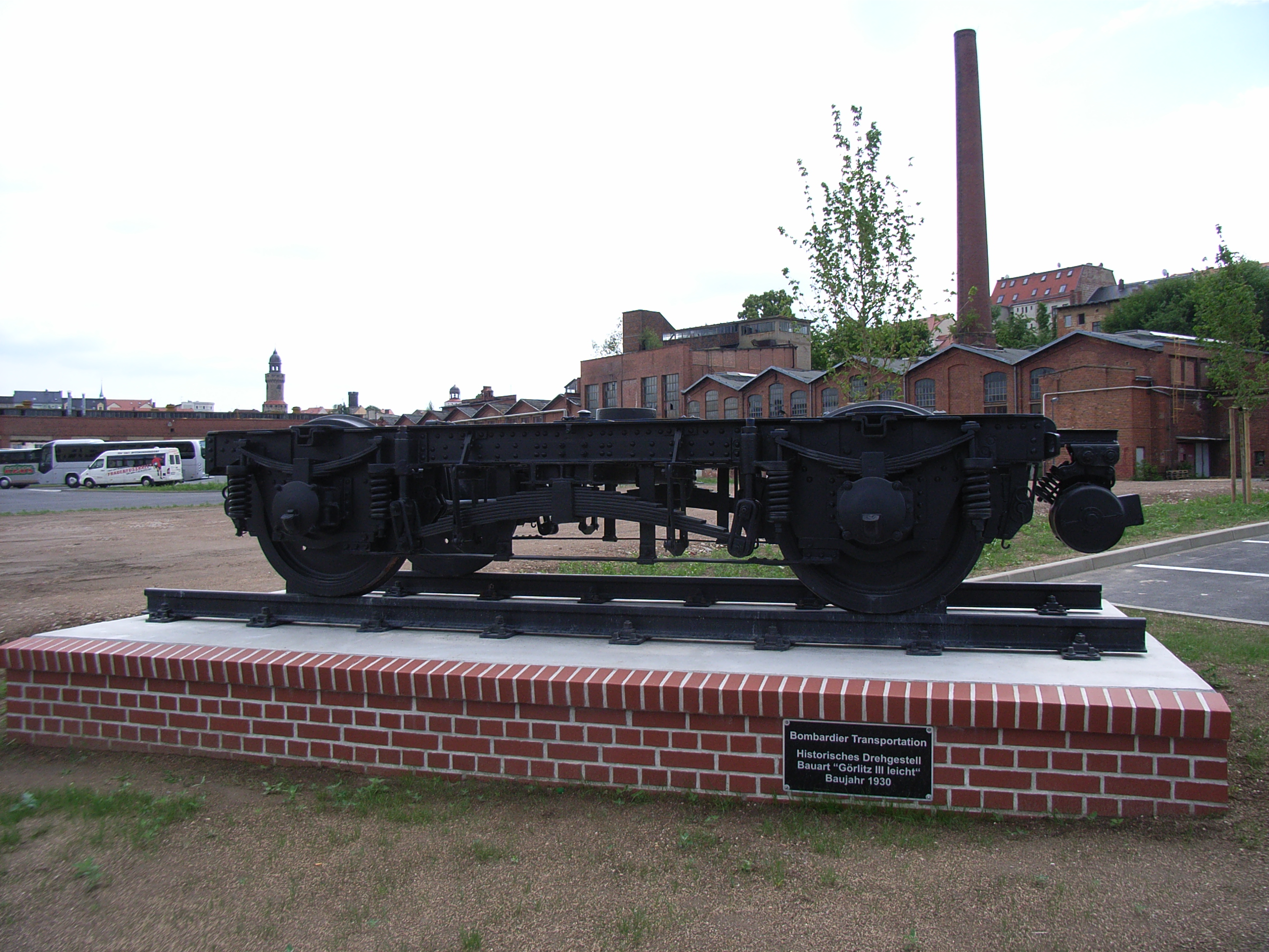 Bogie Goerlitz III leicht on the parking area on the ground of the former waggon builder factory 1 in Goerlitz, Saxony